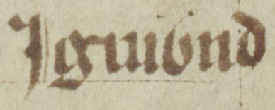 An excerpt from folio 58v of Oxford Jesus College MS 111. The excerpt concerns Ingimundr, a tenth century Viking warlord who battled against the Welsh on the island of Anglesey.